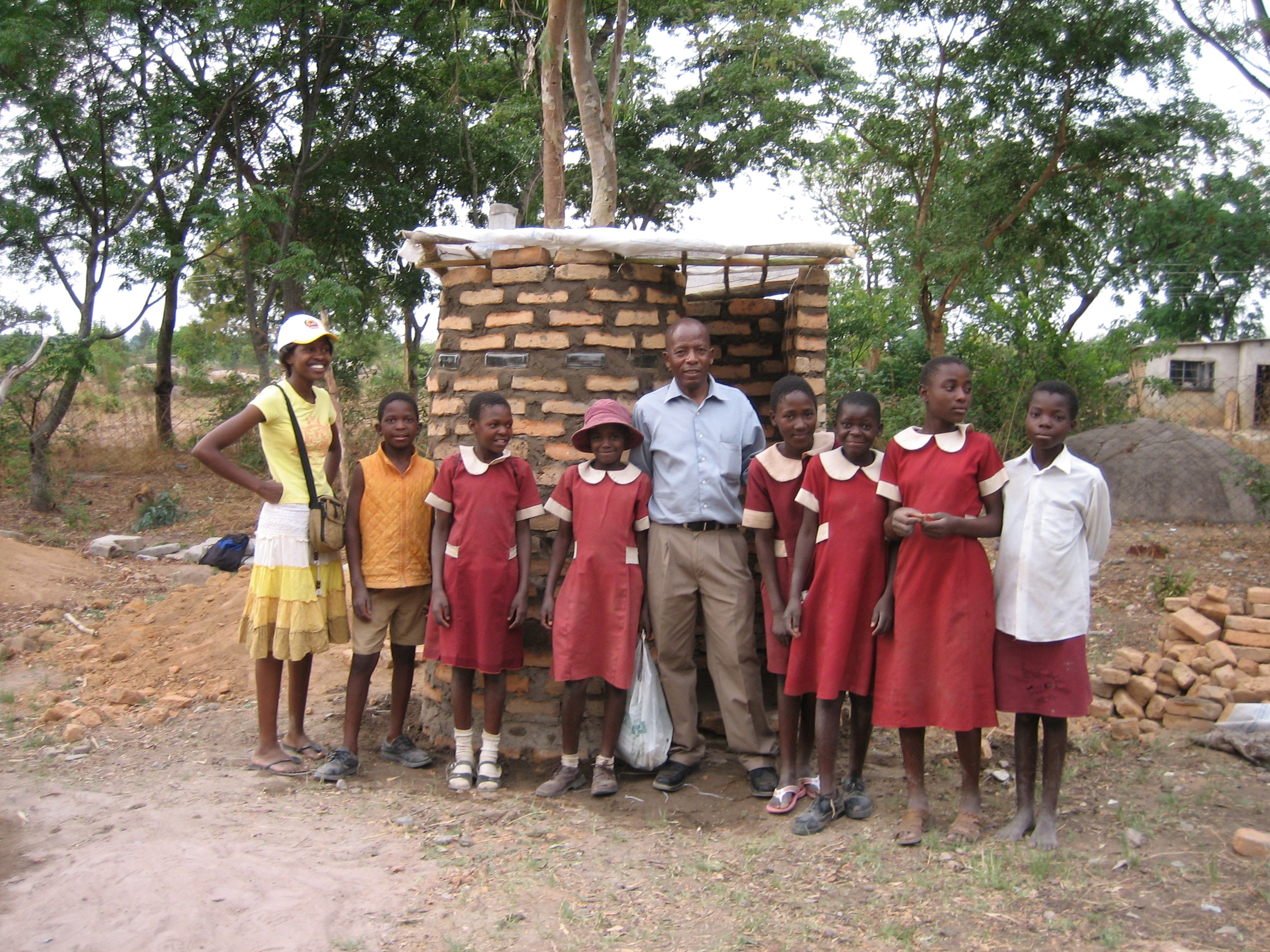 Headmaster, pupils and Annie Shangwa at Chisungu School as they build a spiral BVIP. BVIP stands for Blair VIP. A short explanation of this type of toilet can be found here: Photo by: Peter Morgan in 2008, Epworth-Zimbabwe